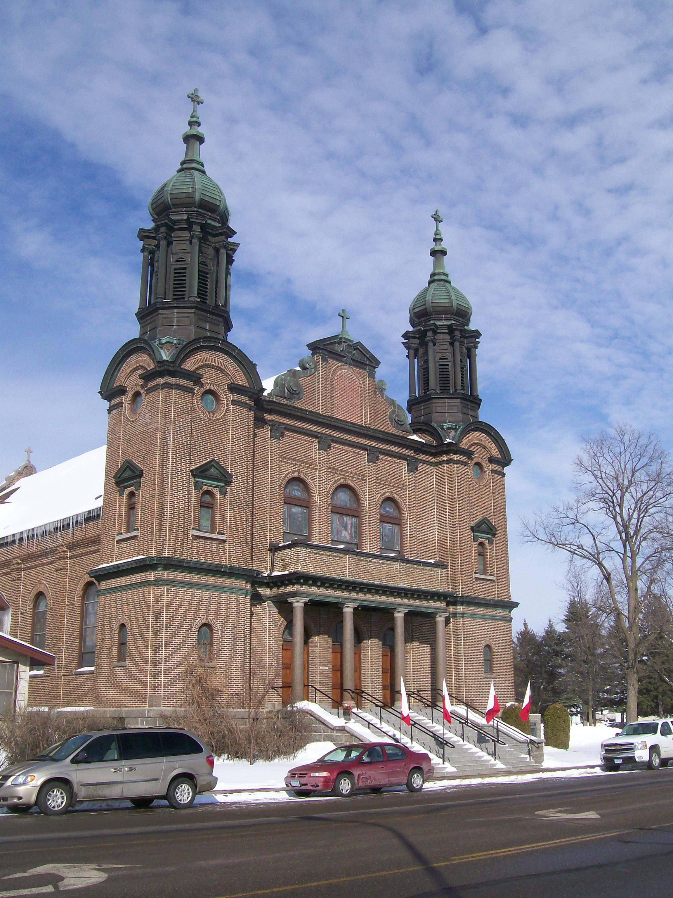 Our Lady of Lourdes Church Little Falls, MN. Polish American Roman Catholic Church in the Diocese of Saint Cloud, Minnesota.